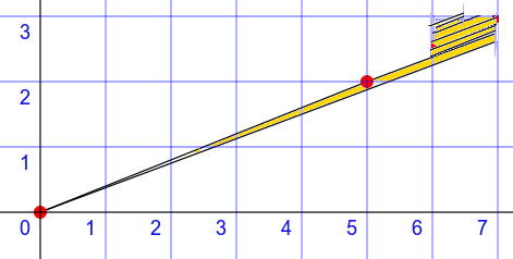 for demonstrate the Missing-square-puzzle's area